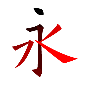 This 永-red.png image depicting the stroke order of the character 永 in red.png style. This image is part of the Commons:Stroke Order Project(zh-de-ja), a project to create a complete set of images depicting the right stroke order (Protocols). The 214 Kangxi radicals have been completed. We currently work on the most frequent characters. Help is welcome.